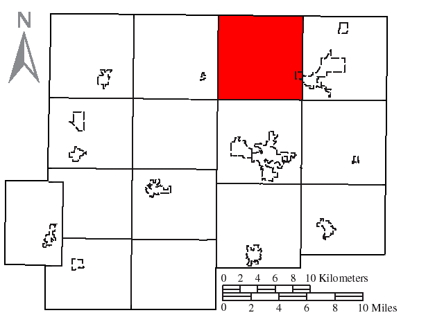 Made by the US Census and modified by myself